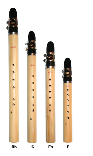 Modern "Pocketino" chalumeaux of different sizes